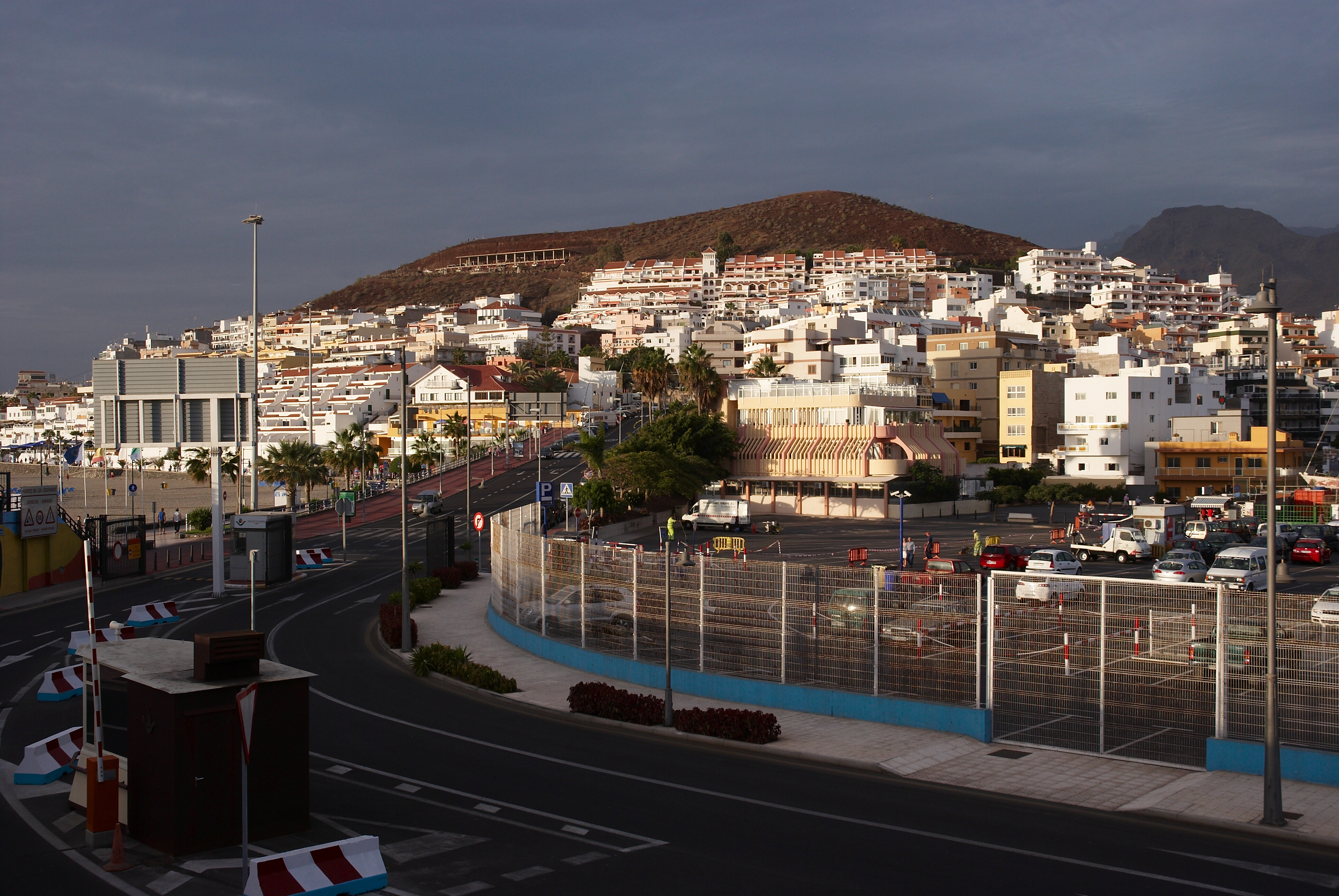 The harbour of Los Cristianos, Tenerife